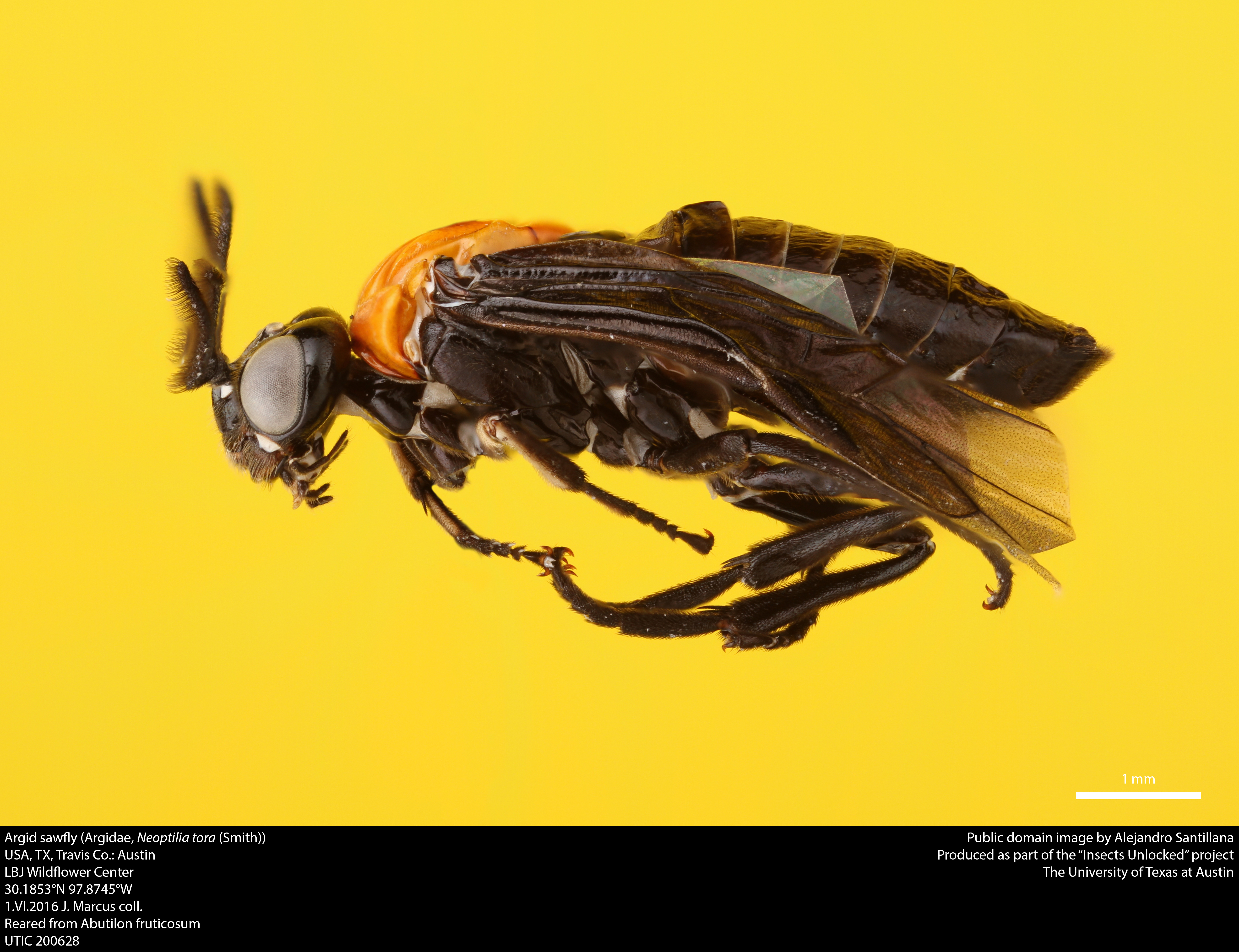 Argid sawfly (Argidae, Neoptilia tora (Smith)) USA, TX, Travis Co.: Austin LBJ Wildflower Center 30.1853°N 97.8745°W 1.VI.2016 J. Marcus coll. Reared from Abutilon fruticosum UTIC 200628